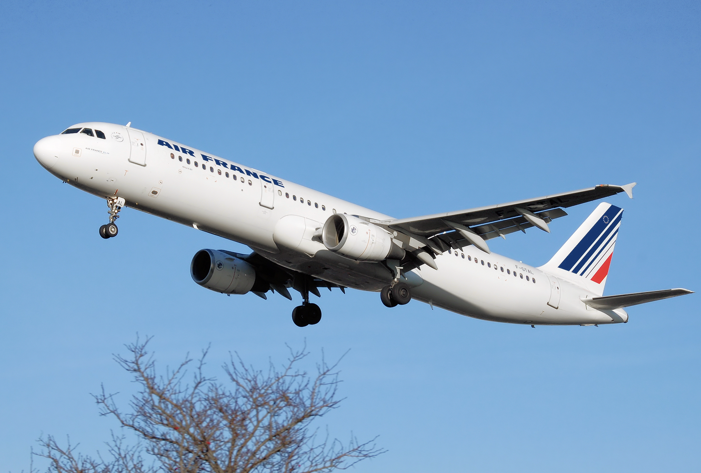 Air France Airbus A321-200 (F-GTAL) lands at London Heathrow Airport, England.